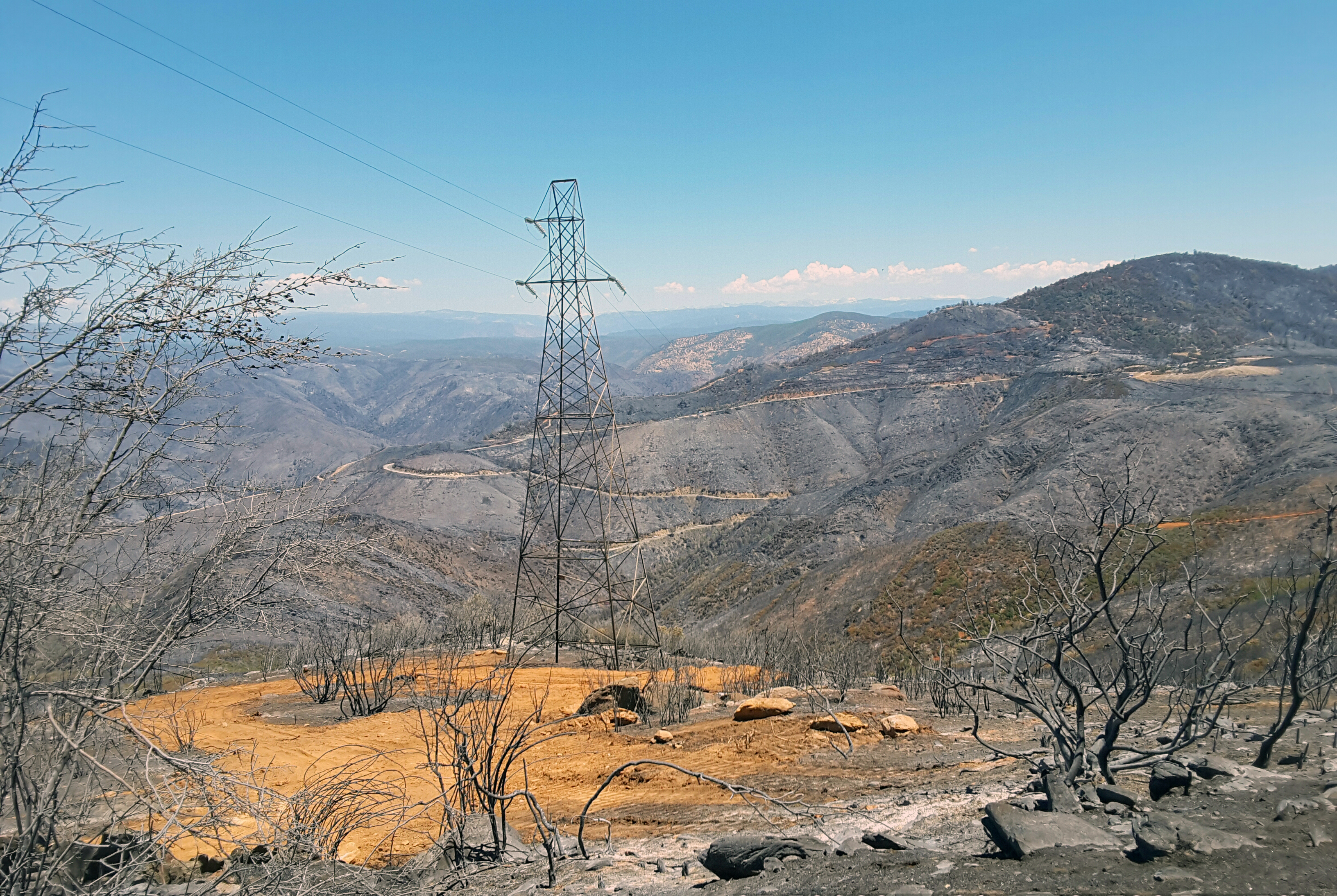 Aftermath of the Detwiler Fire